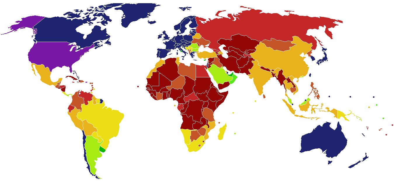 US B visa refusal rate United States Visa exempt countries Over 50% Over 40% Over 30% Over 20% Over 10% Over 5% Over 3% Under 3%